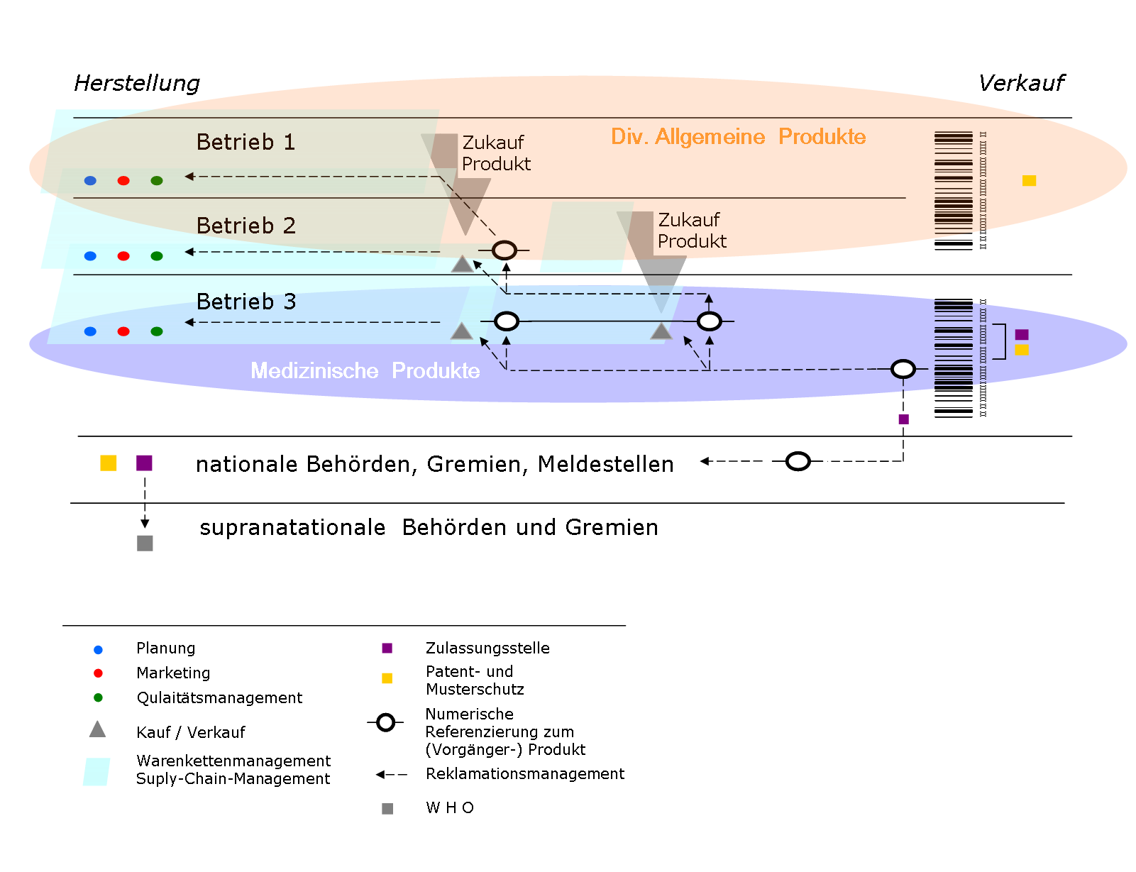 PNG-File created out of my PPT Presentation